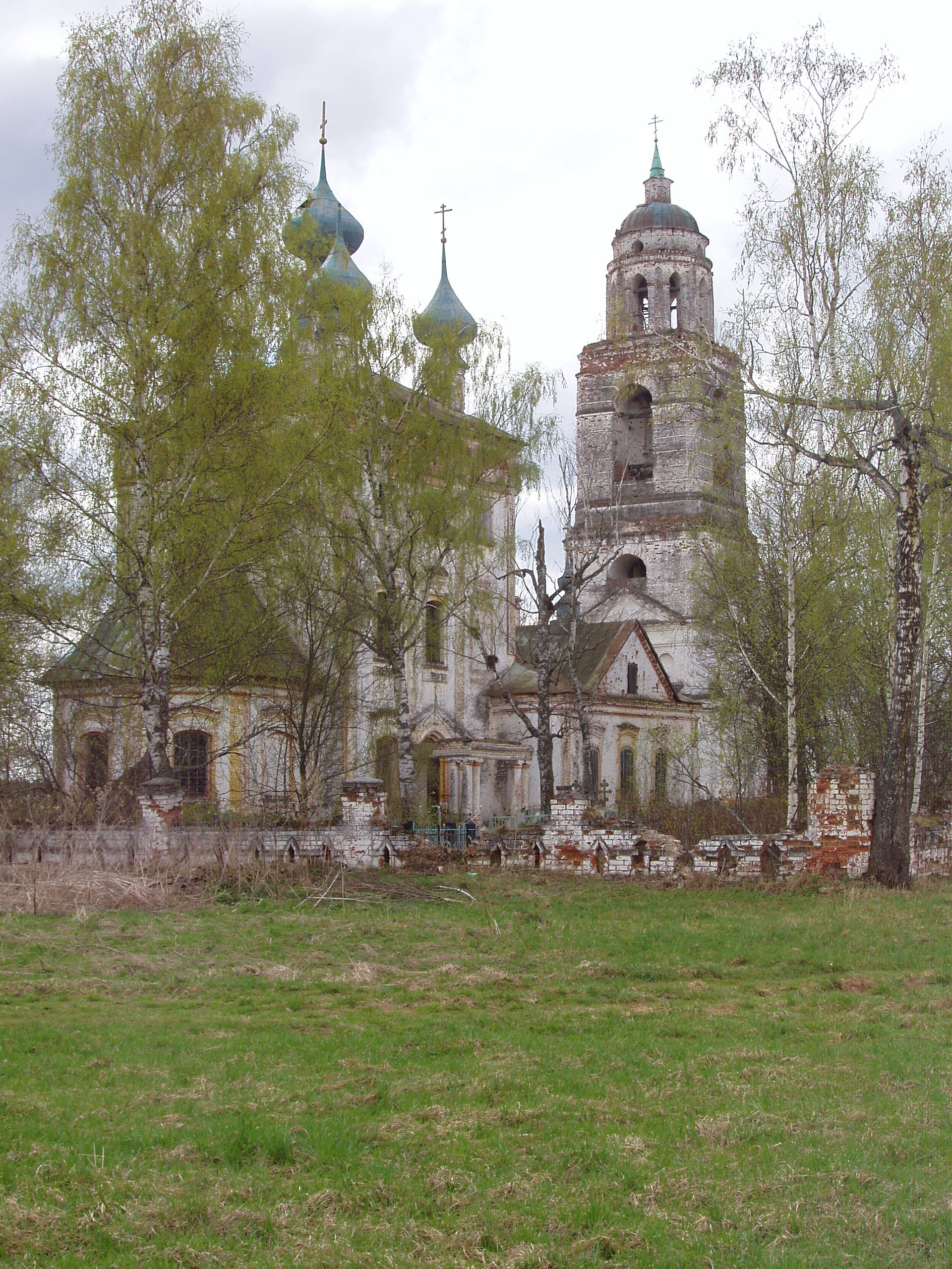 Shapkino Village, Church. 1825. Russia, Ivanovo region, Savinsky district.